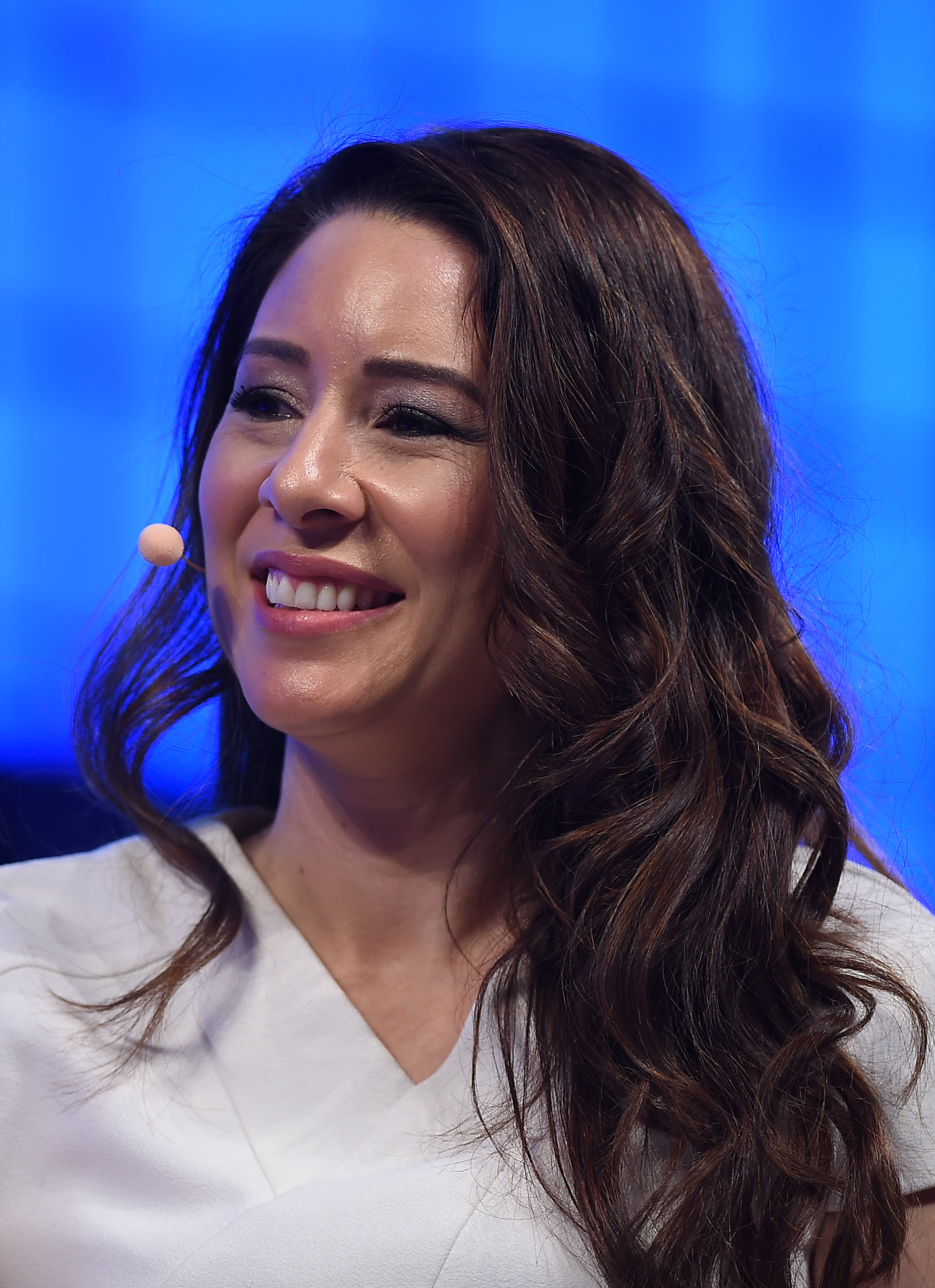 8 November 2017; Karen Tso, Anchor, Squawk Box, CNBC, on Centre Stage during day two of Web Summit 2017 at Altice Arena in Lisbon. Photo by Cody Glenn/Web Summit via Sportsfile